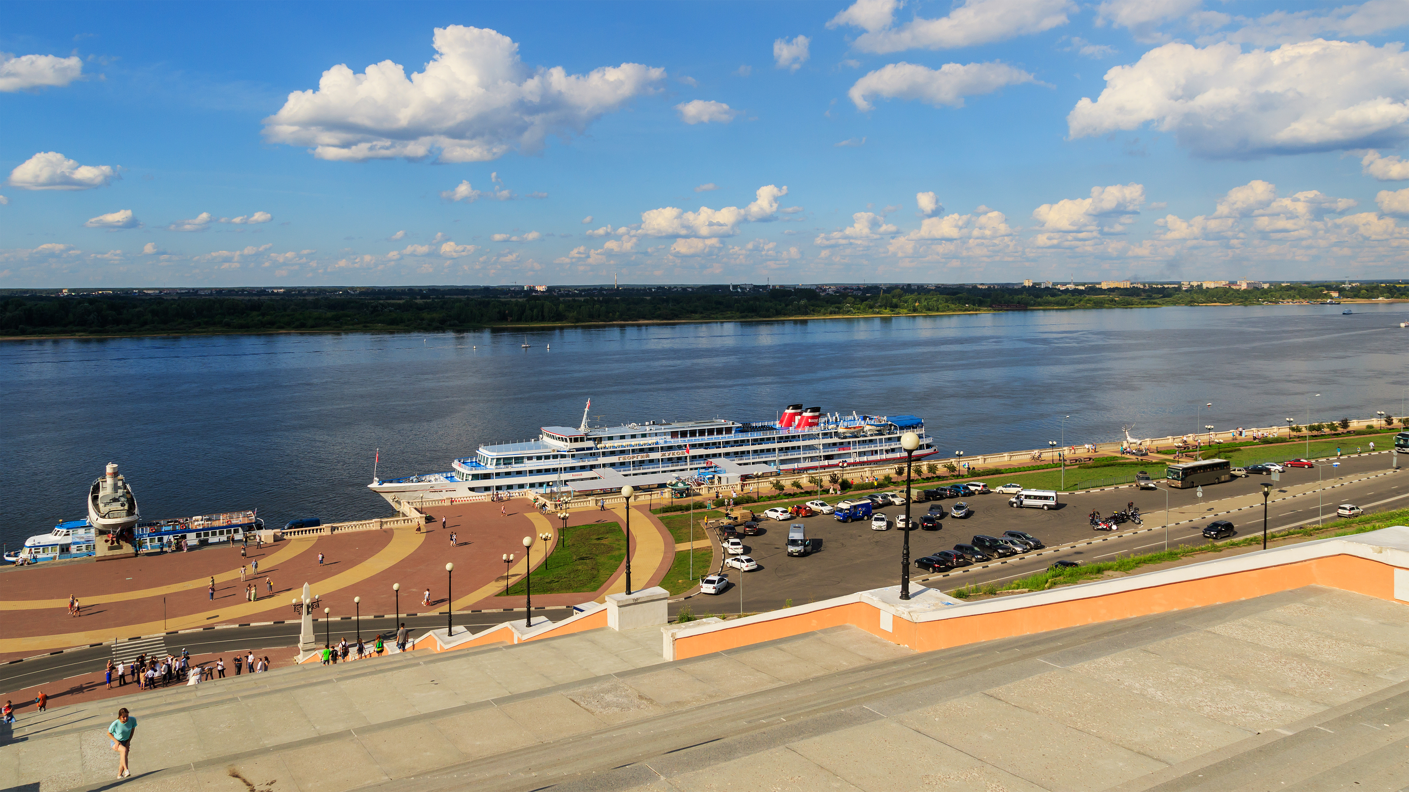 Chkalov Stair cascade in Nizhny Novgorod, Russia